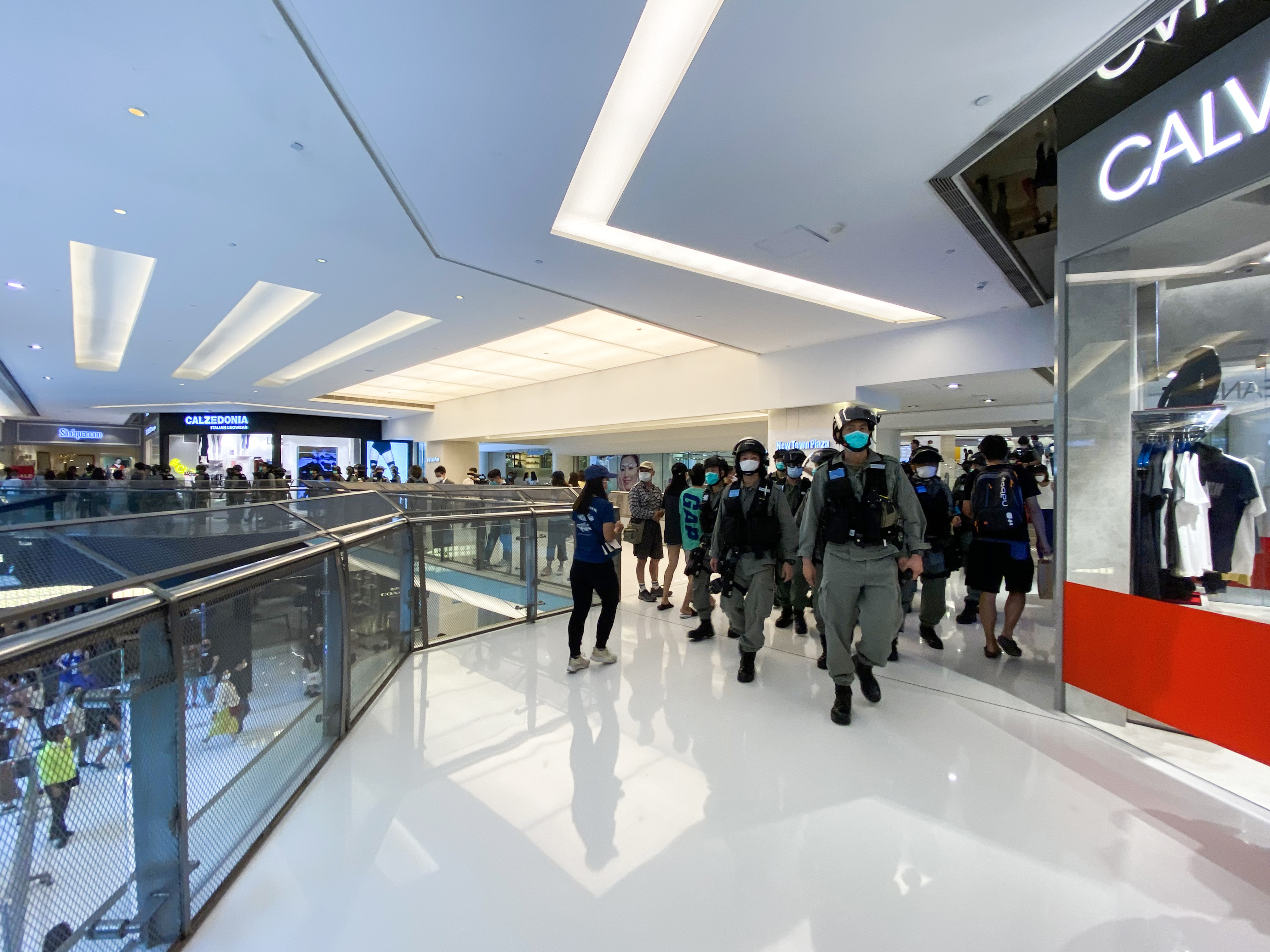 Riot police entry to NTP Level 4